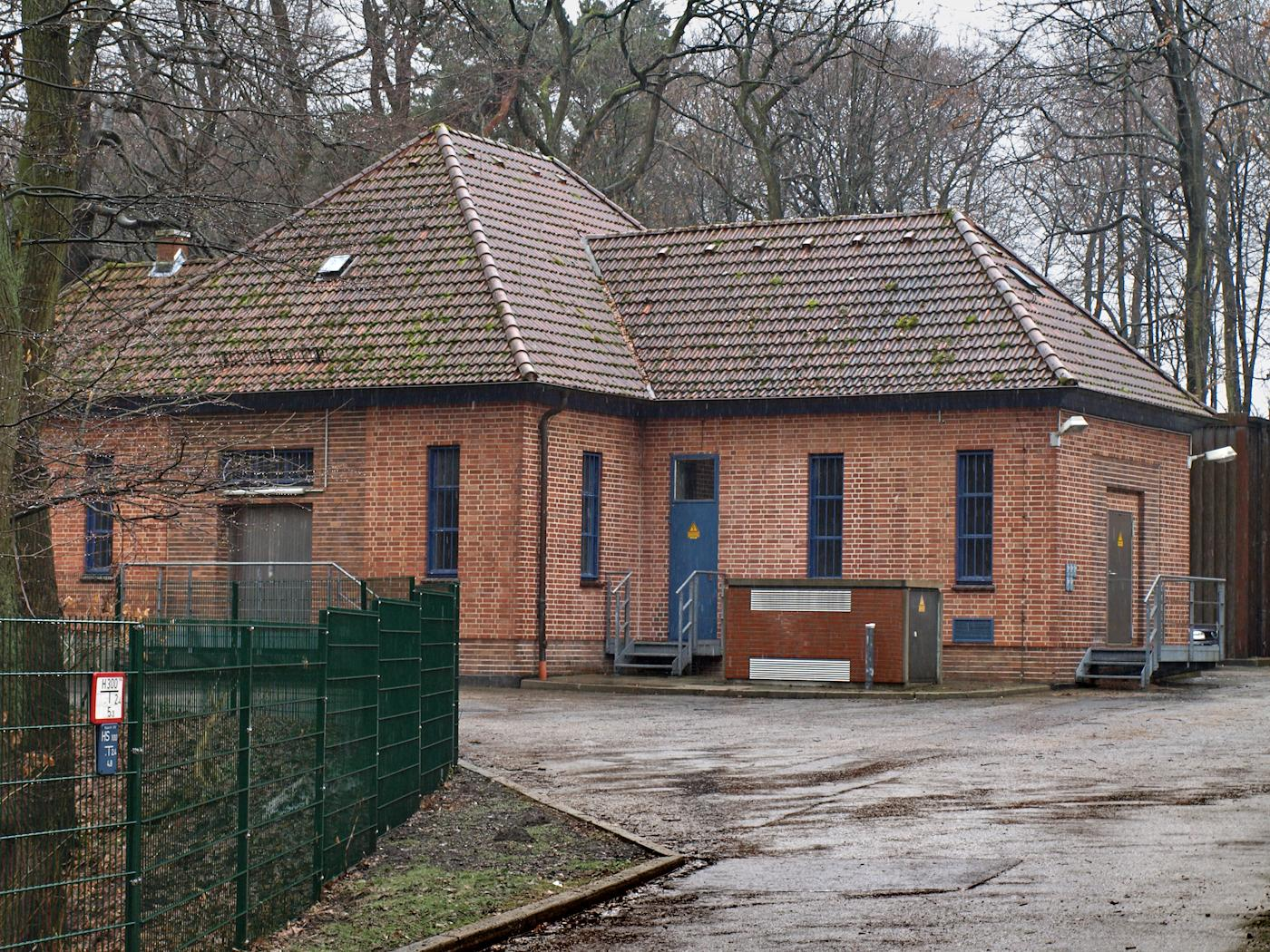 Hamburg-Bergedorf (Germany), operation building near the water tower, photo 2010